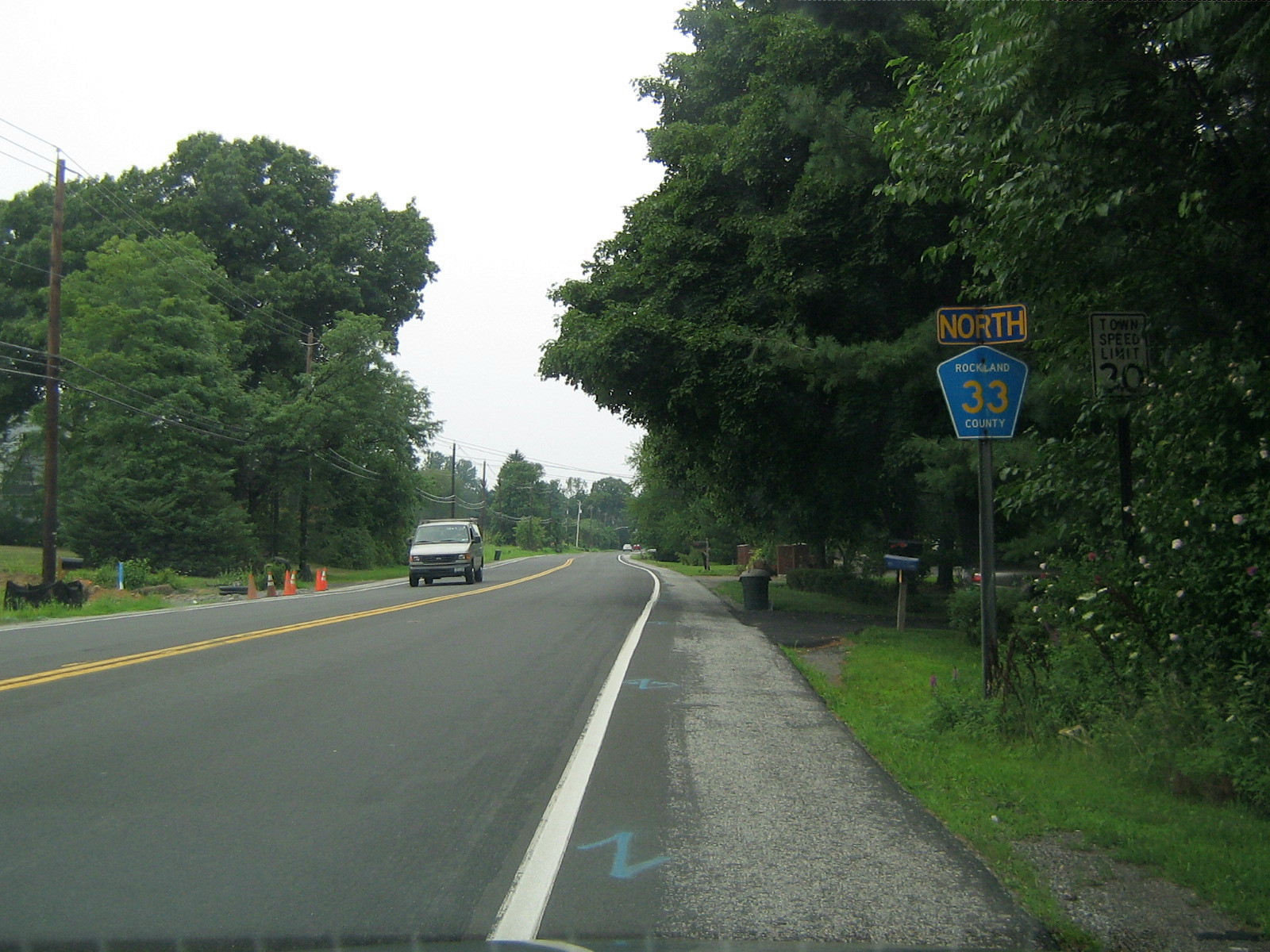 CR 33 here in New City as it proceeds north toward Hi-Tor Mountain.